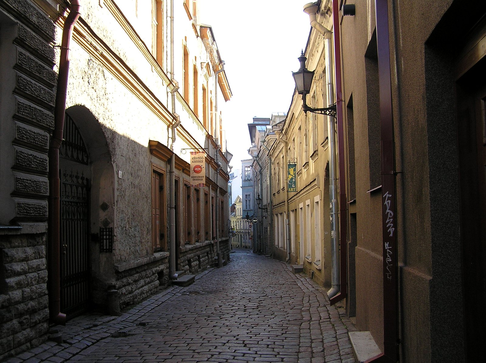 Müürivahe street in Tallinn